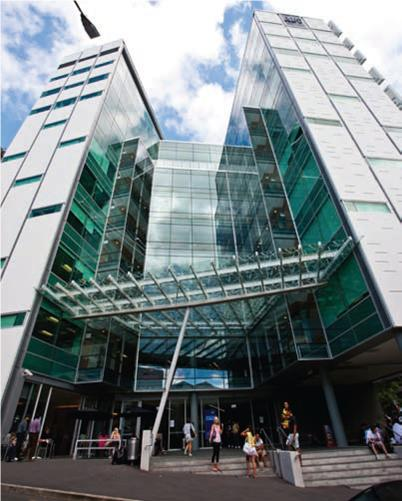 WF (School of Business) Building at Auckland University of Technology city campus in Auckland, New Zealand